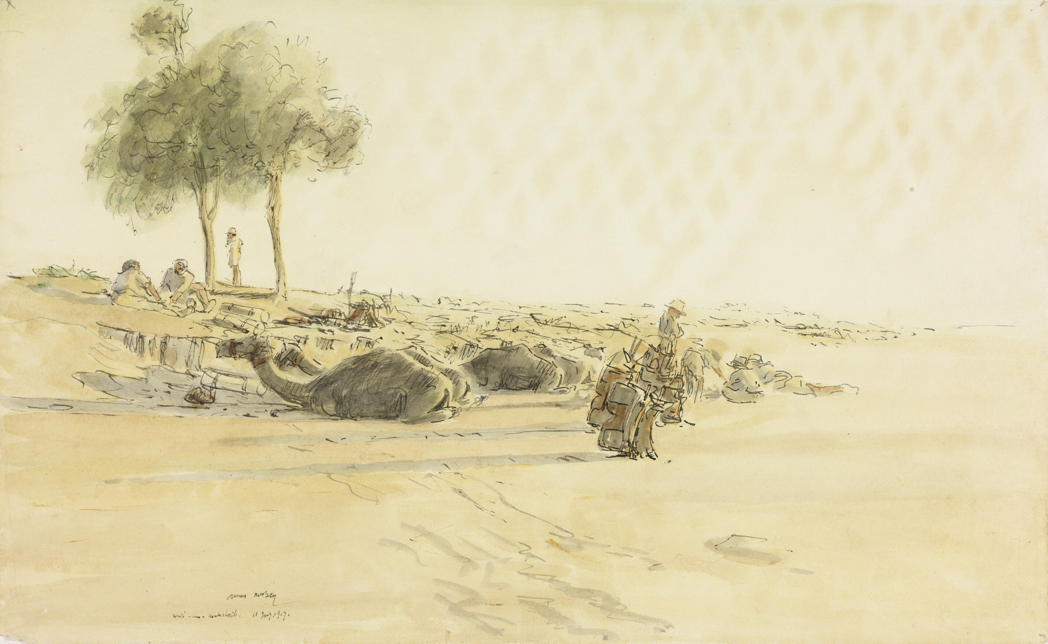 The Long Patrol- the Wadi image: an Imperial Camel Corps patrol have halted in a wadi, a dried out riverbed, in the desert. A group of soldiers sit and stand on the right, immediately behind several saddles that have been removed from the backs of the camels, who are lined up at the wadi edge, their legs curled up underneath them. Two other men sit on the elevated bank near two trees, with another man standing further back, looking into the distance.